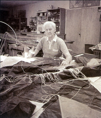 Domina Jalbert 1989 in his garage